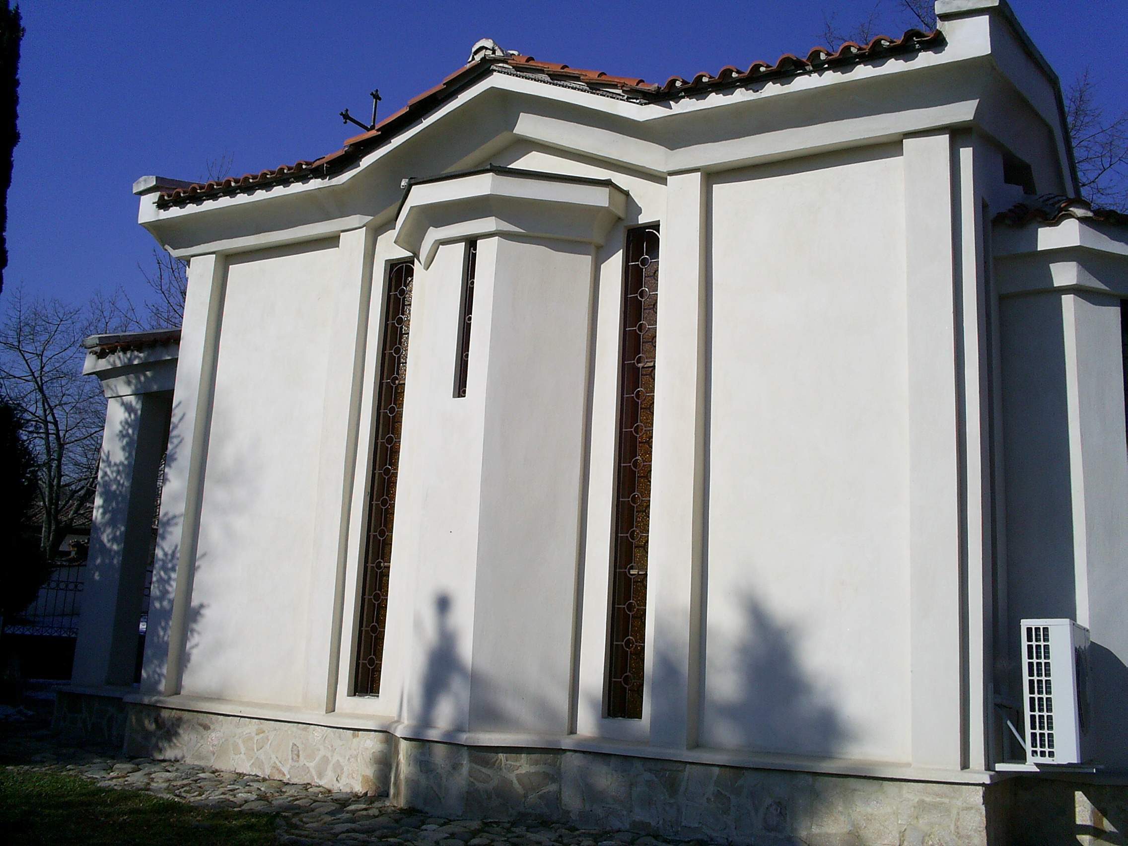 Chapel "All Bulgarian Saints" in the house-museum of Vassil Levski